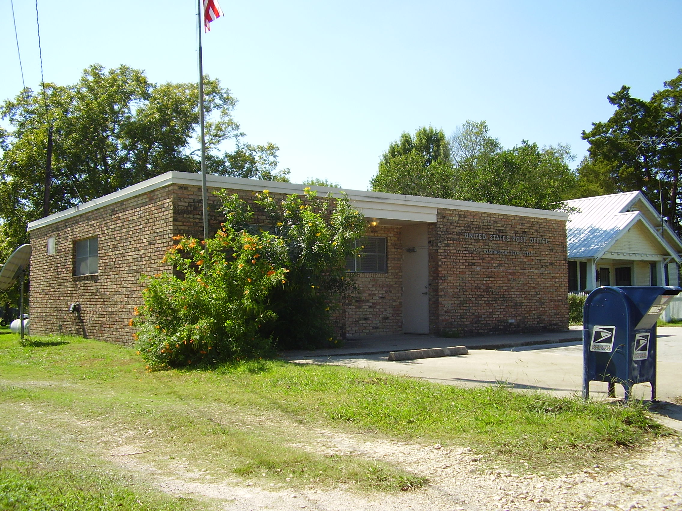 Washington Post Office in Washington-on-the-Brazos in Washington County